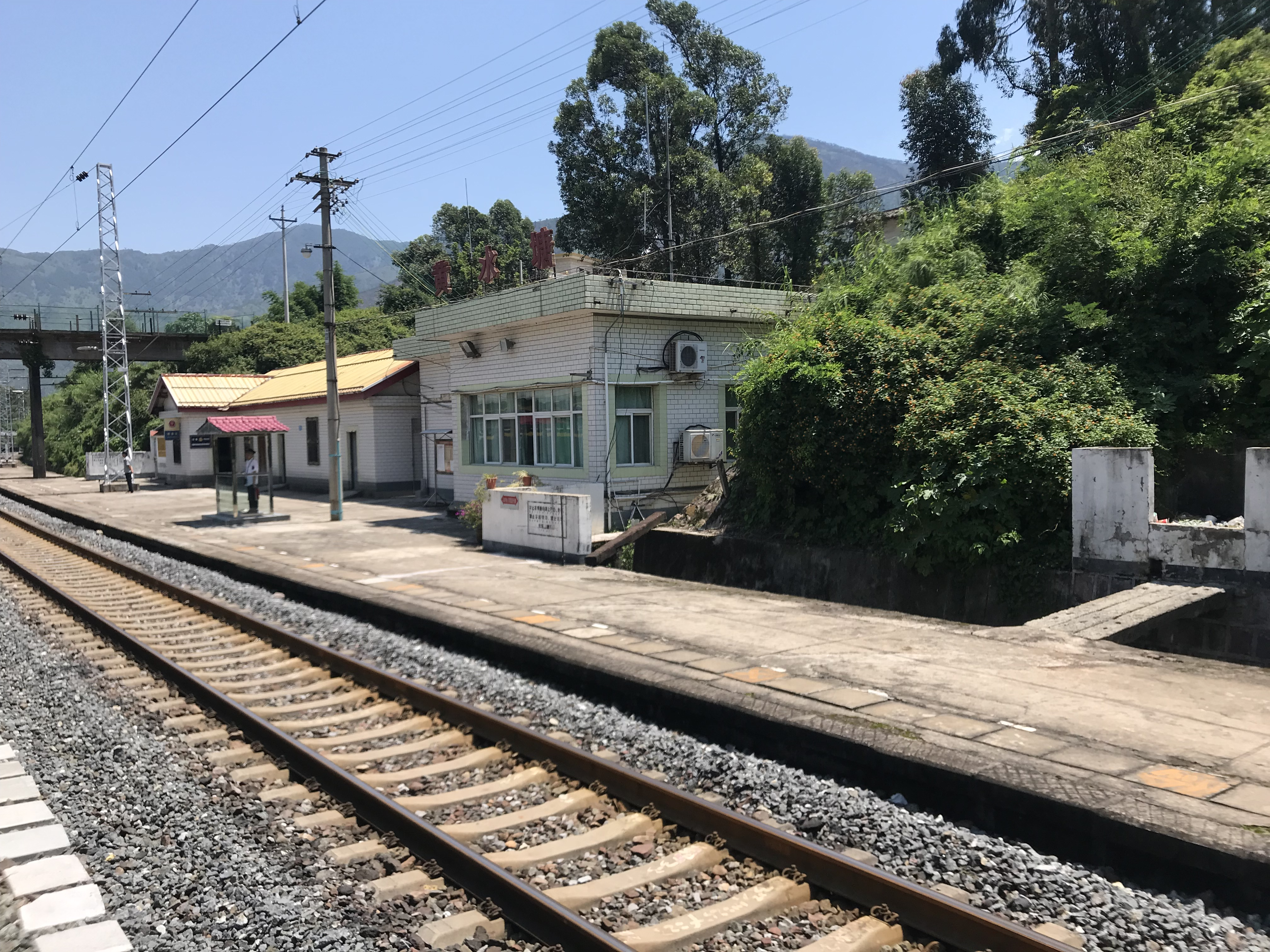 201908 Station Building of Huangshuitang